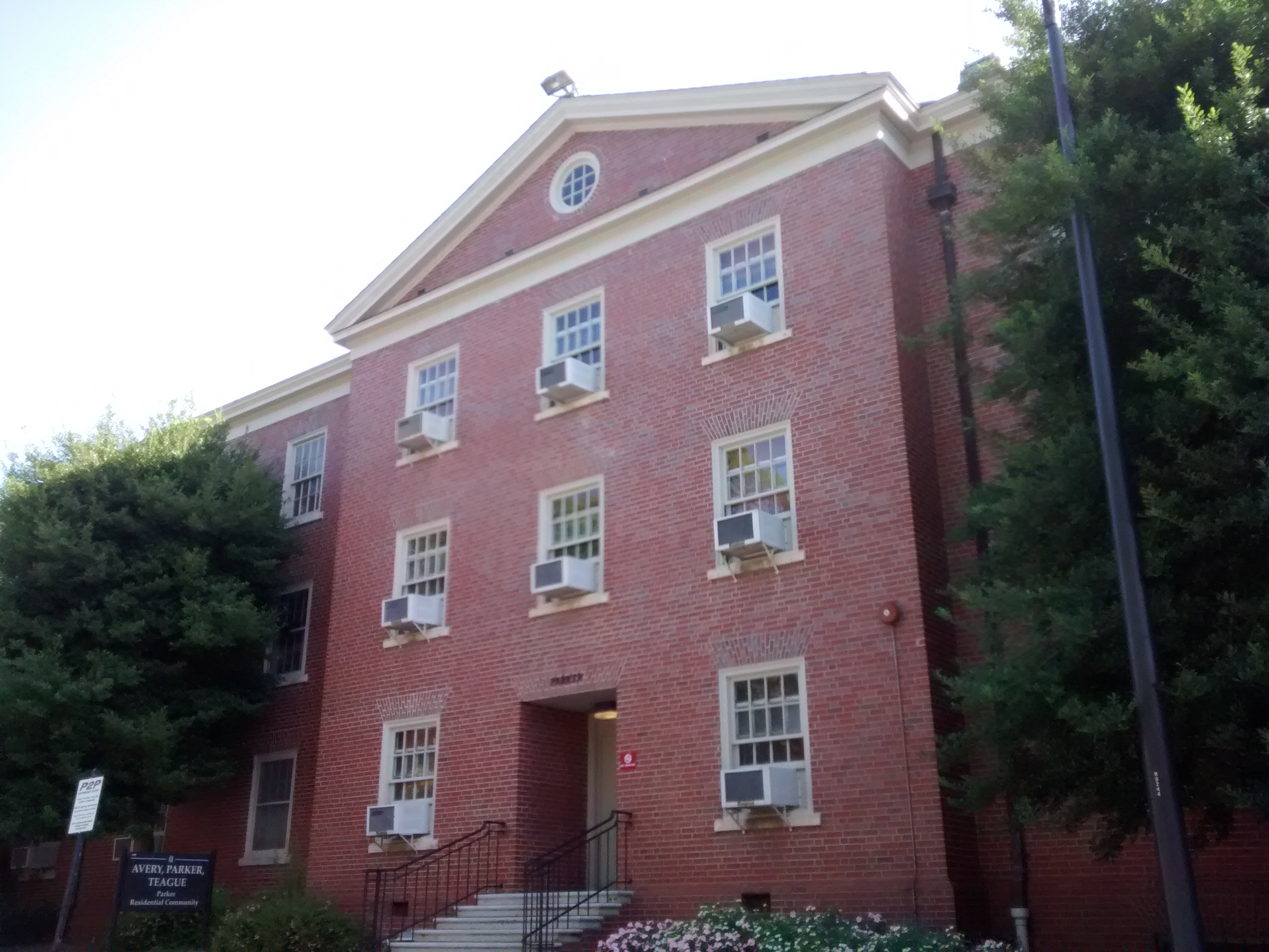 Parker Residence Hall at the University of North Carolina at Chapel Hill.